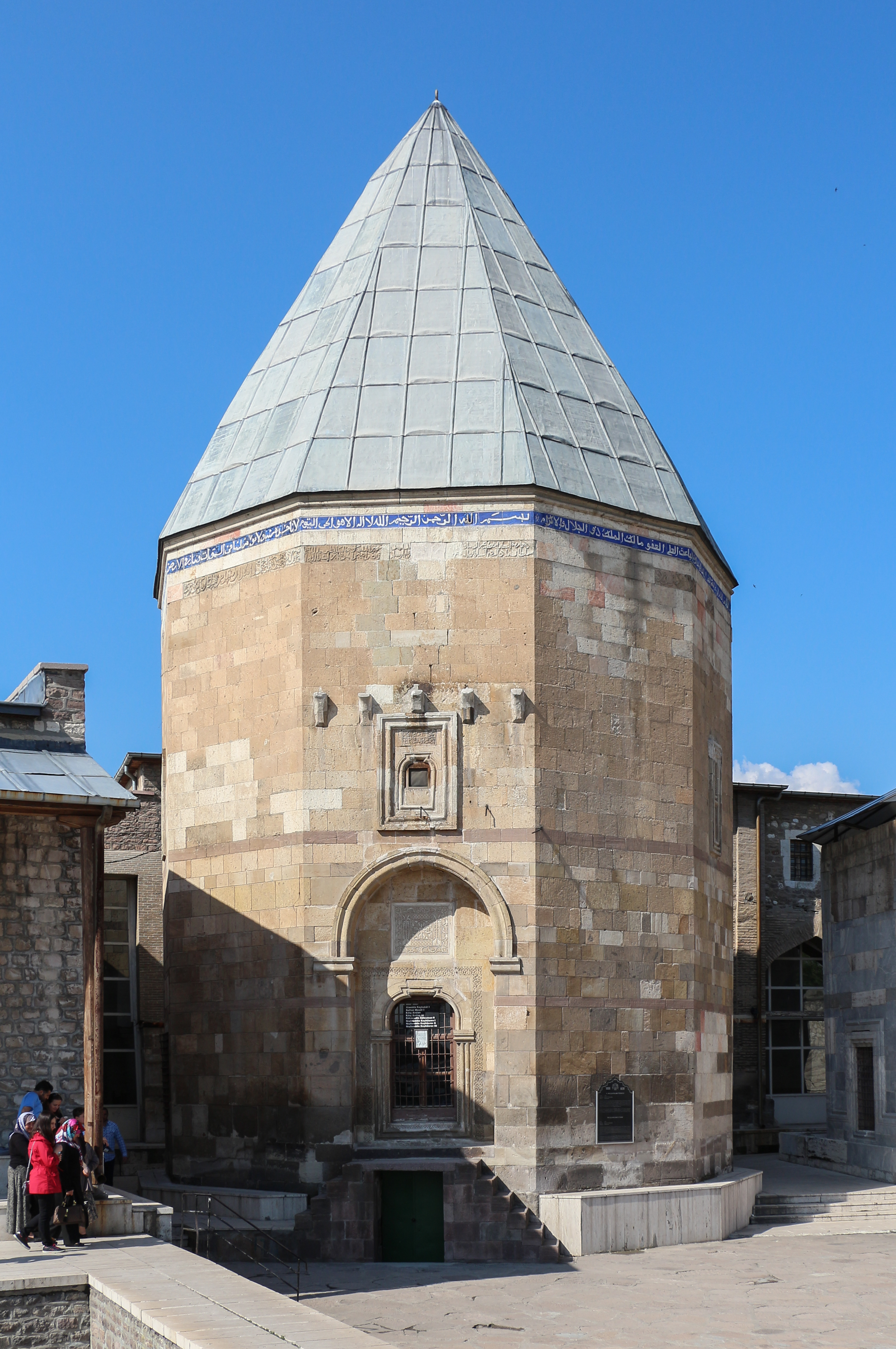 Türbe Kilij Arslan II in Alâeddin Mosque courtyard, Konya, Turkey